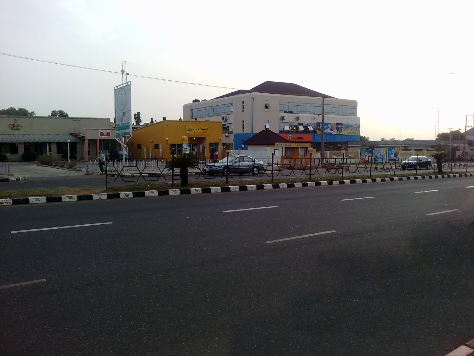 Ahmadu Bello Way, Ilorin